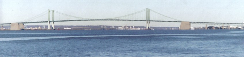 The Delaware Memorial Bridge, New Castle, Delaware, to Carneys Point, New Jersey; United States of America.